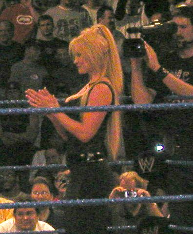 This photo is not copyrighted. I took it with my digital camera. yes it is no its not